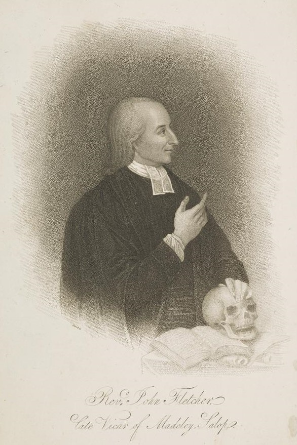 Portrait of John William Fletcher (1729–1785), British Methodist cleric.